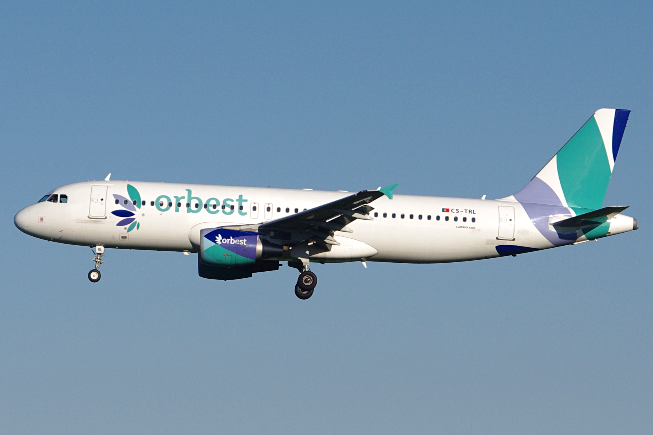 Airbus A320 of Orbest at Vitoria-Gasteiz Airport.